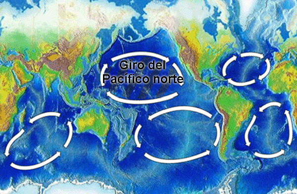 Diagram of the five major ocean-wide gyres with the North Pacific gyre highlighted. (labels in Spanish)